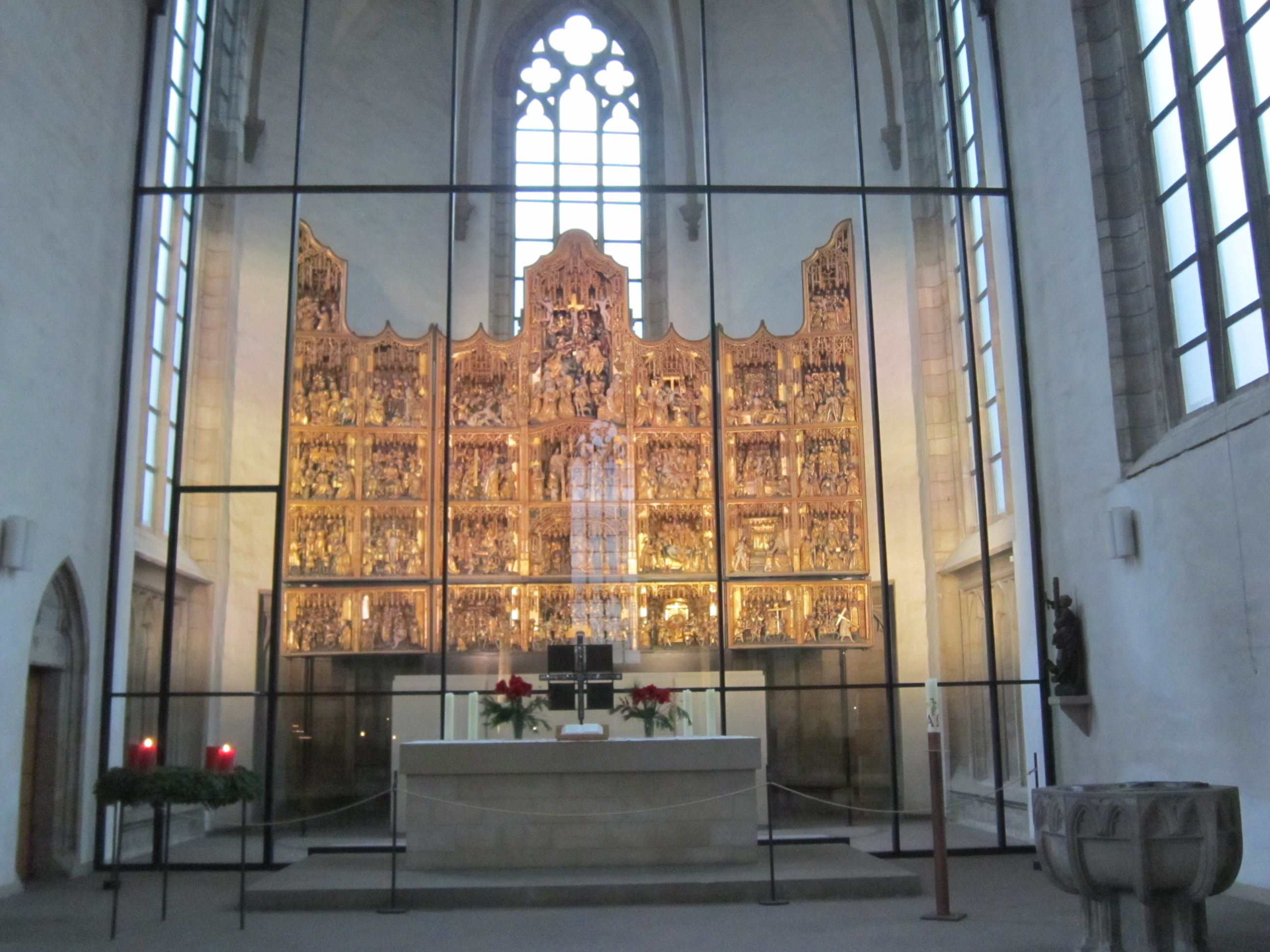 Altar piece from Antwerp in St. Petri Church Dortmund